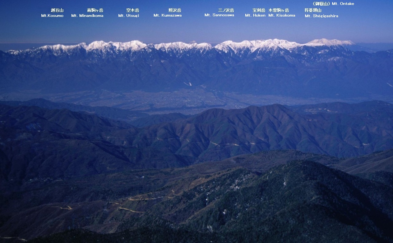 Kiso Mountains seen from Mount Senjō